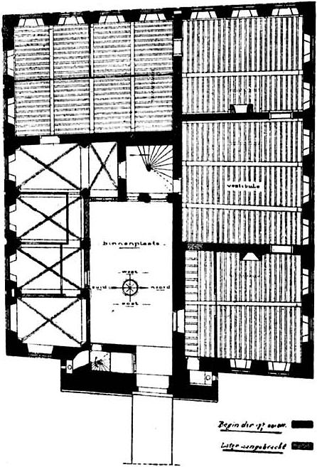 Gomarius Mes (?). Wijchen Castel, plan. 1889 (?).